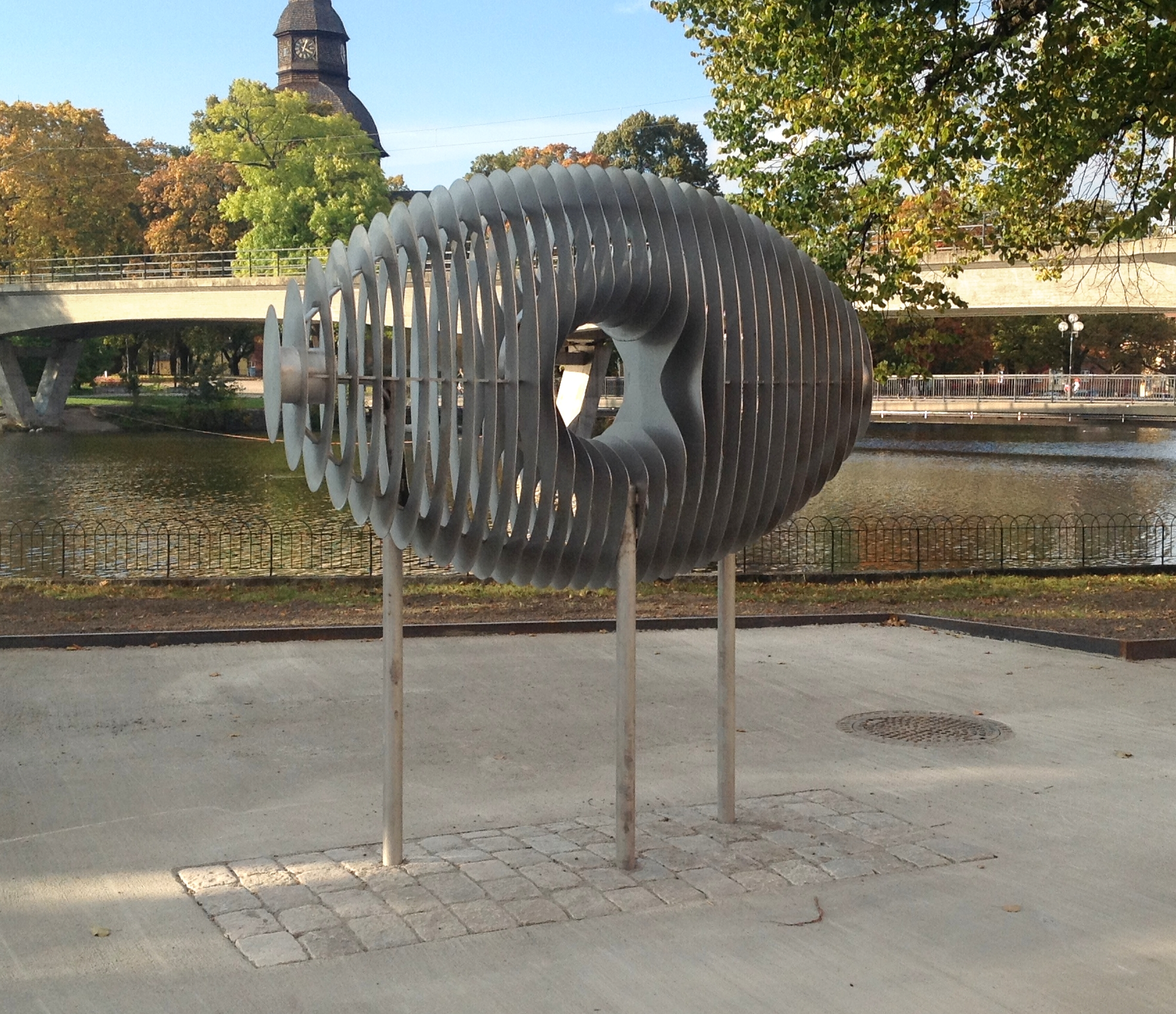 The sculpture "Öga för Eskilstuna" ("An eye for Eskilstuna") by Hanna Stahle placed on Köpmangatan in Eskilstuna, Sweden